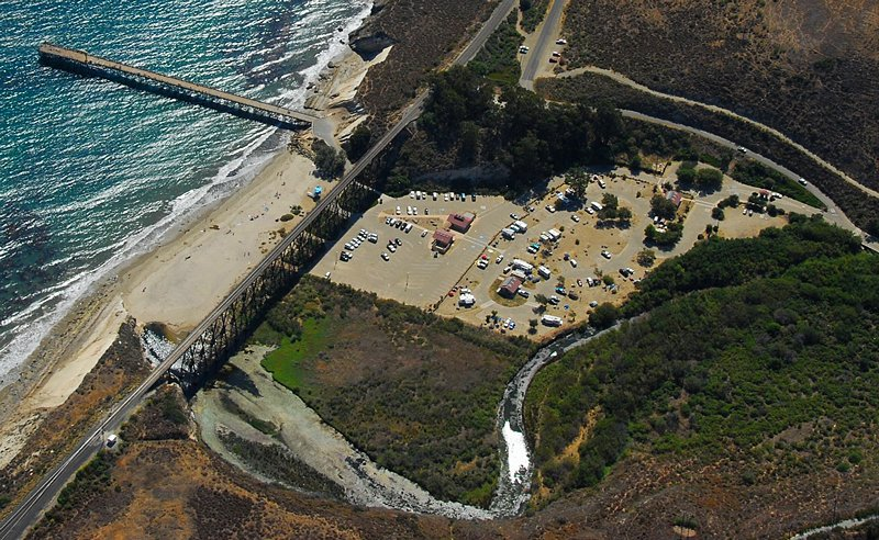 Aerial photo of the main Gaviota Beach campground at Gaviota State Park — located west of Goleta in Santa Barbara County, California.